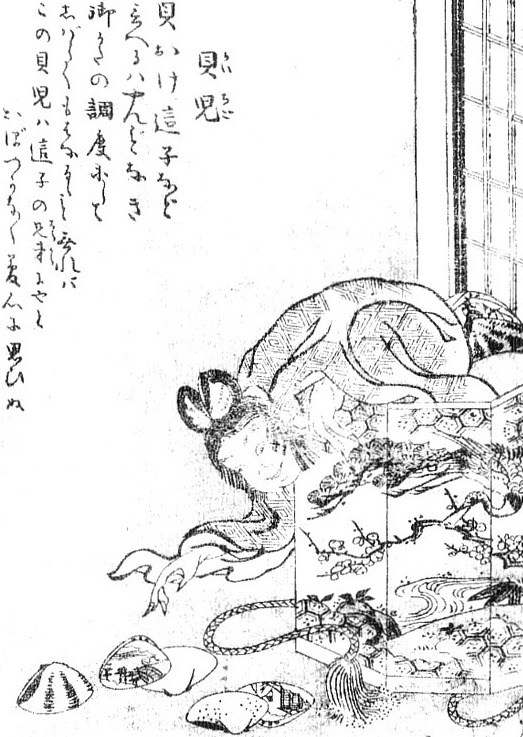 Kaichigo (貝児) from the Gazu Hyakki Tsurezure Bukuro (百器徒然袋)